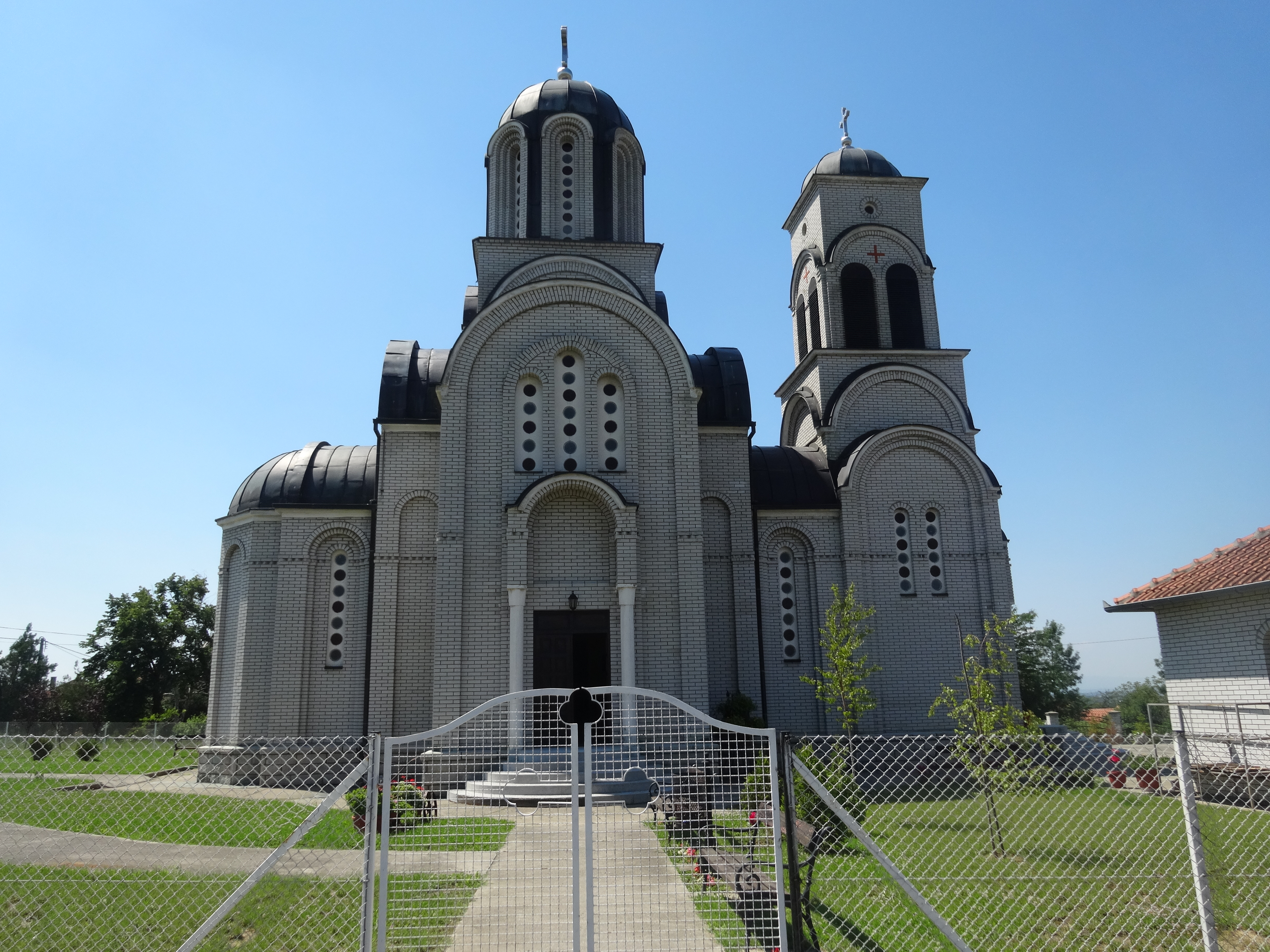 Stepojevac, Church